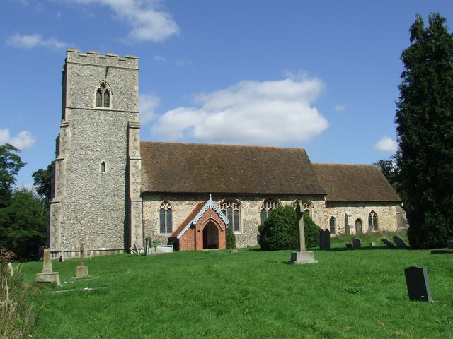 Parish church of St Mary The Virgin, Edwardstone, Suffolk, seen from the south